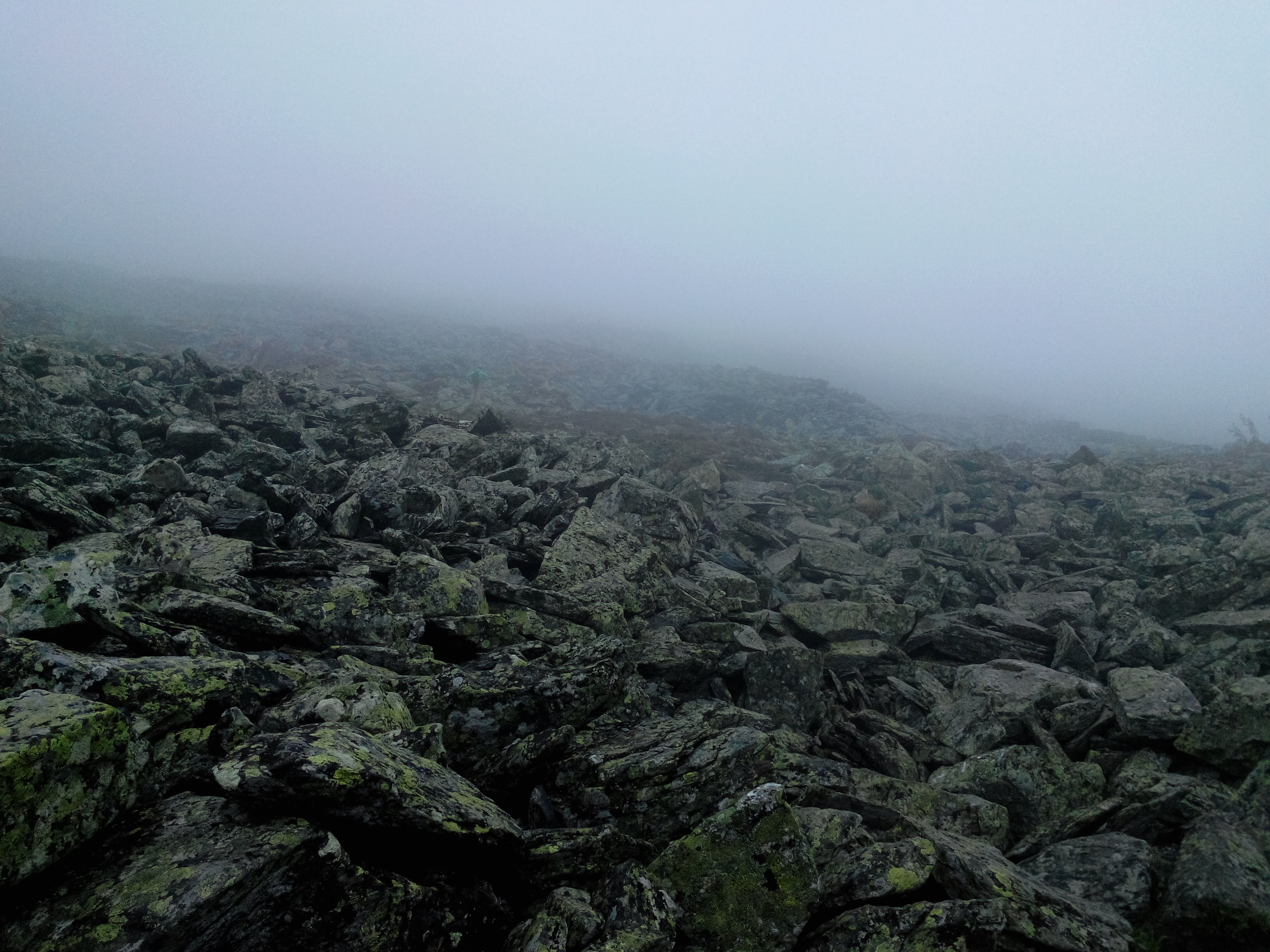 An unforgettable trip to the Big Iremel mountain peak, 1586 m (Southern Urals). Mount Iremel symbolizes the beauty and majesty of the Southern Urals. It consists of a ancipitate array - Small and Big Iremel. Big Iremel is the second highest peak of the Southern Urals. Its highest point reaches 1586 m above sea level. The slopes are covered with huge boulders Iremel – kurums. When you climb to the top you can notice a change of four high-altitude zones, each of which has its own characteristic vegetation. Spruce, fir, birch grow in the mountain-forest belt. Subalpine belt with a woodland is located above it. The real mountain tundra with dwarf birches, elfin northern berries begins a little bit higher. Finally, at the very top there are areas of alpine cold deserts.